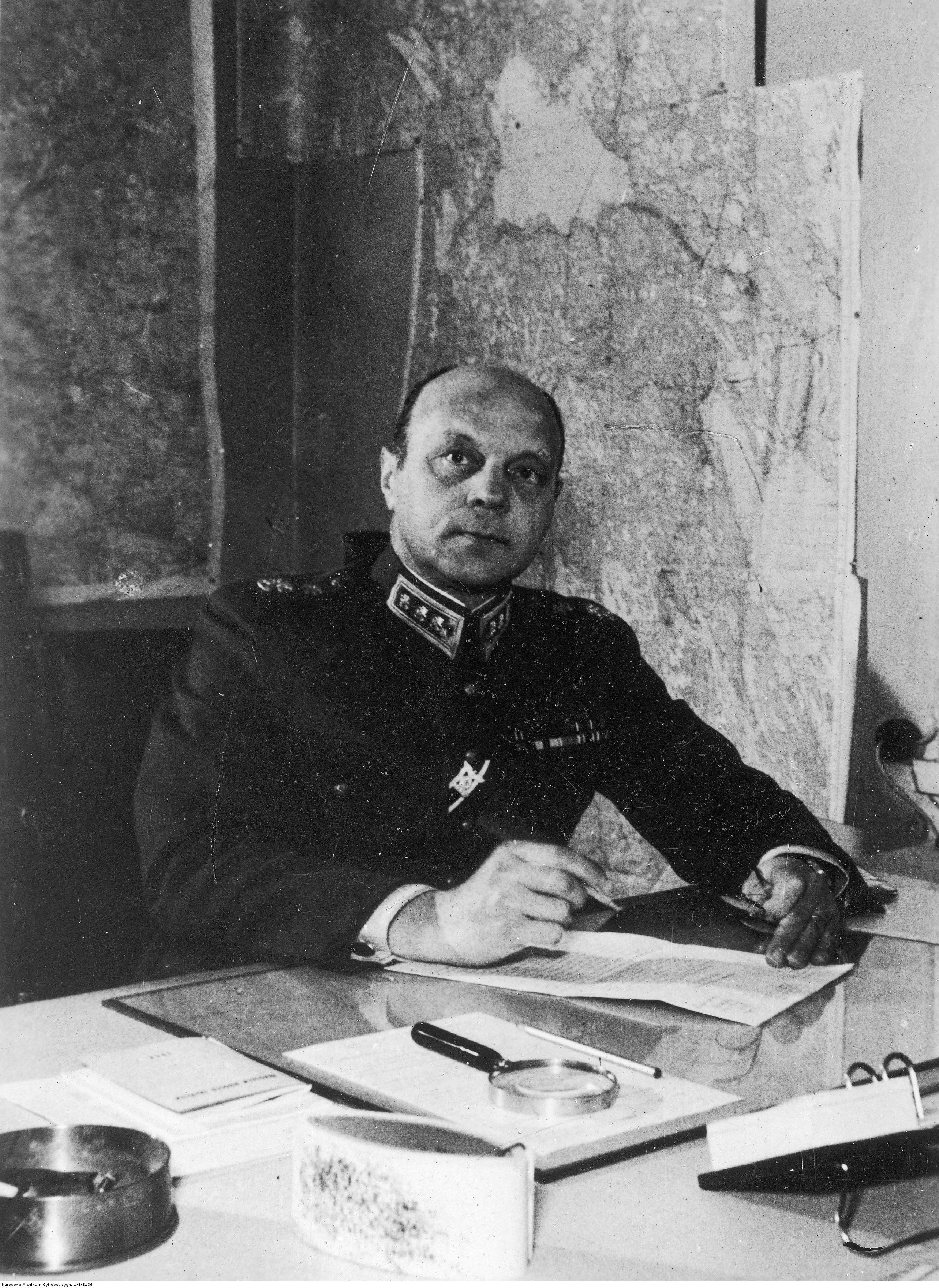 General Axel Erik Heinrichs (1890–1965), the Chief of Defence of the Finnish Defence Forces in 1945